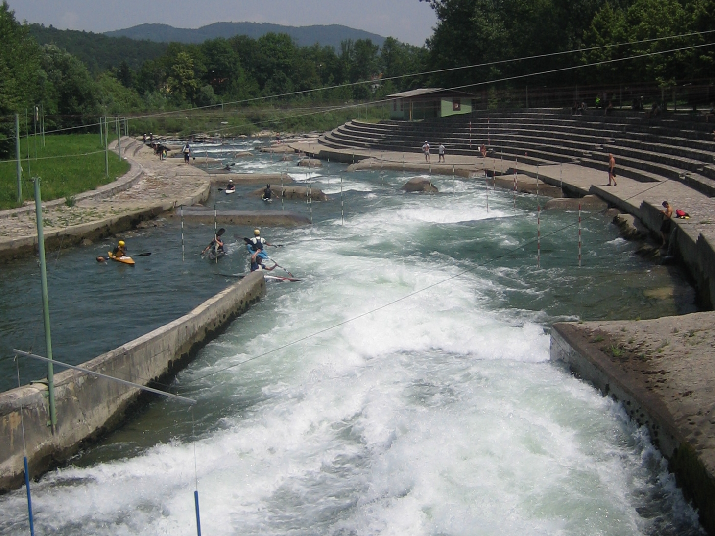 Tacen whitewater slalom course on the Sava river near Ljubljana, Slovenia. Looking downstream from just below the top drop.